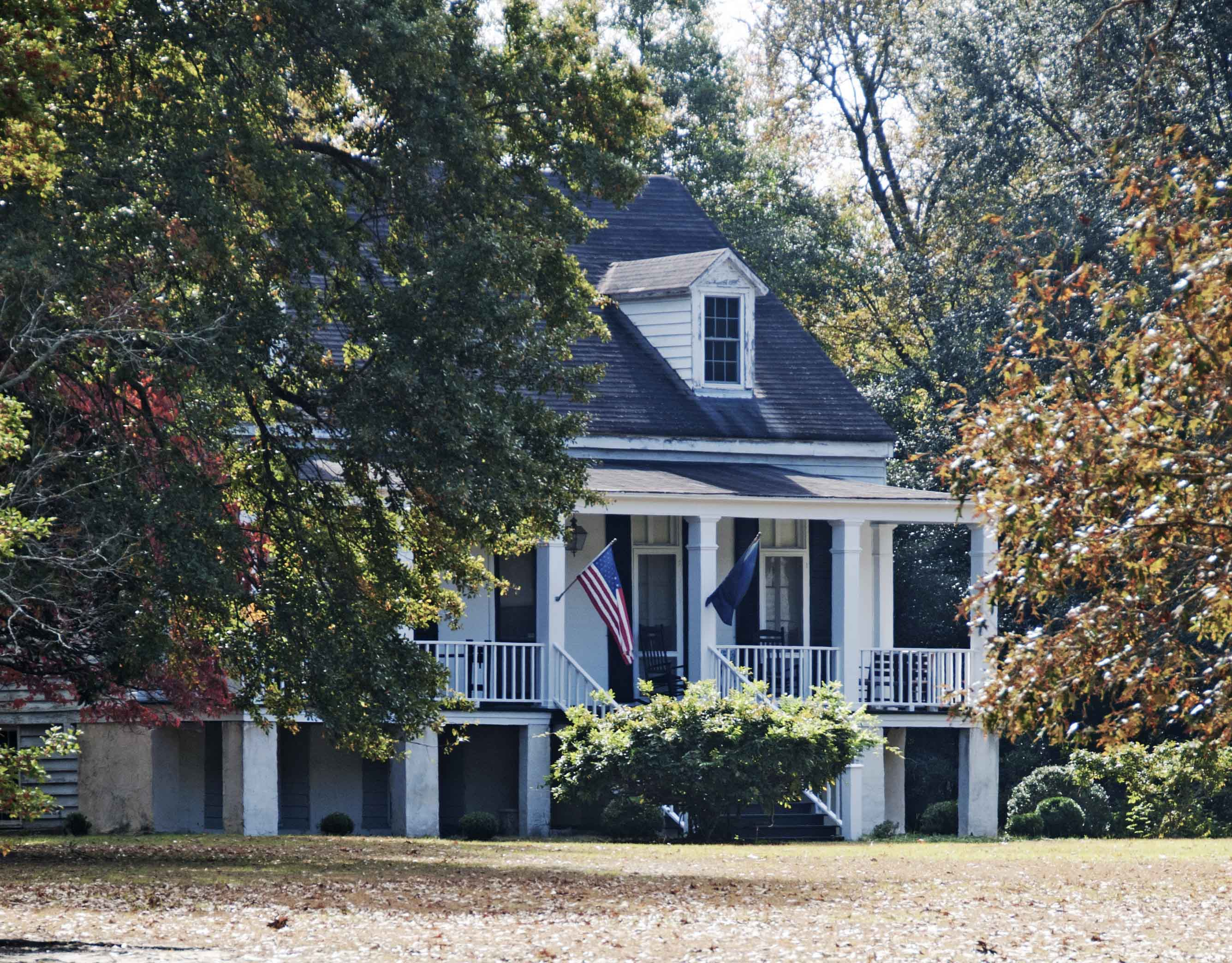 Oakland Plantation, Fort Motte vicinity, South Carolina